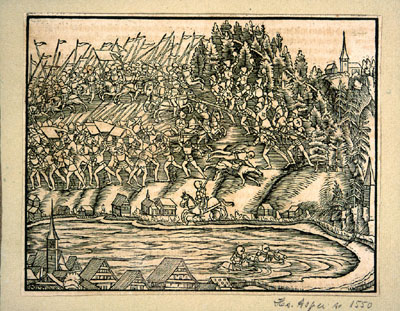 Battle of Morgarten in 1315, Woodcut